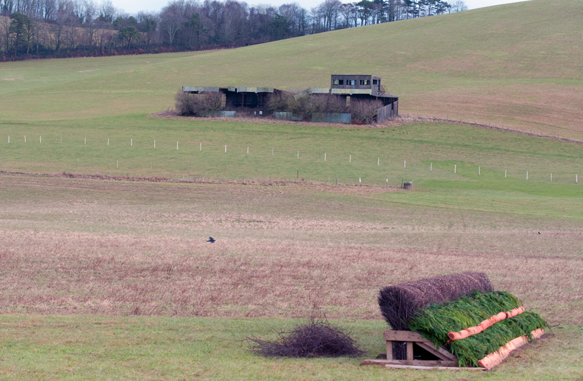 Not such a grand stand and jump - Buckfastleigh Despite the ruin that the stand has become, racegoers can still enjoy a good day at the races at Buckfastleigh as the newly built jump testifies to its continued use as a point to point venue.